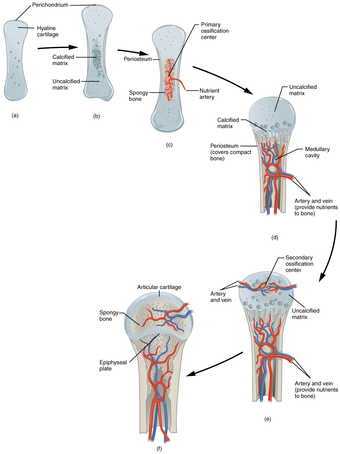 Illustration from Anatomy & Physiology, Connexions Web site. Jun 19, 2013.